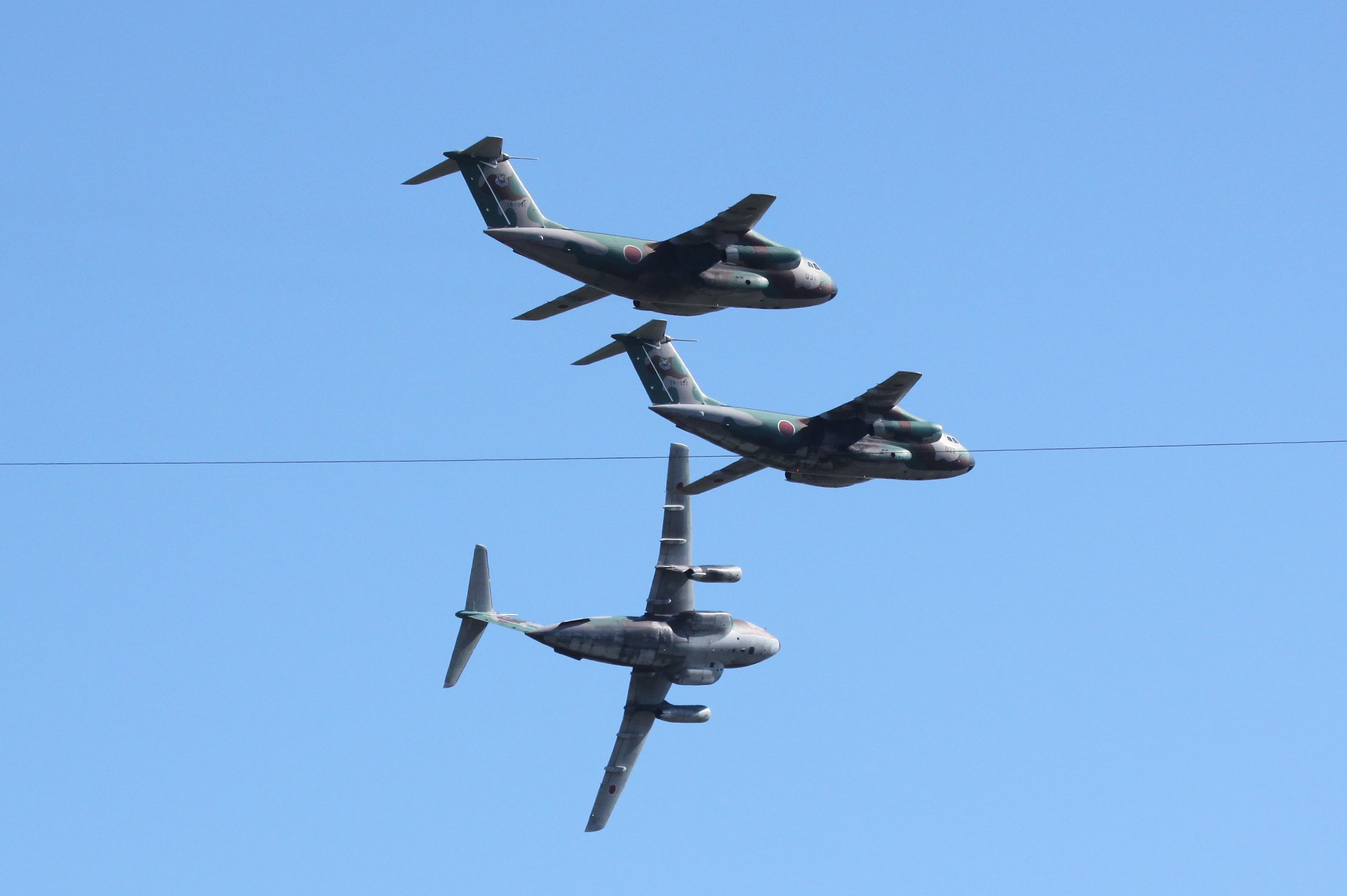 Three C-1 transports at Iruma.